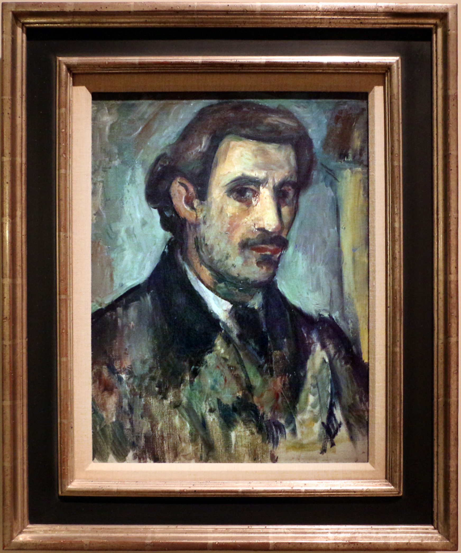 European paintings in the Art Institute of Chicago